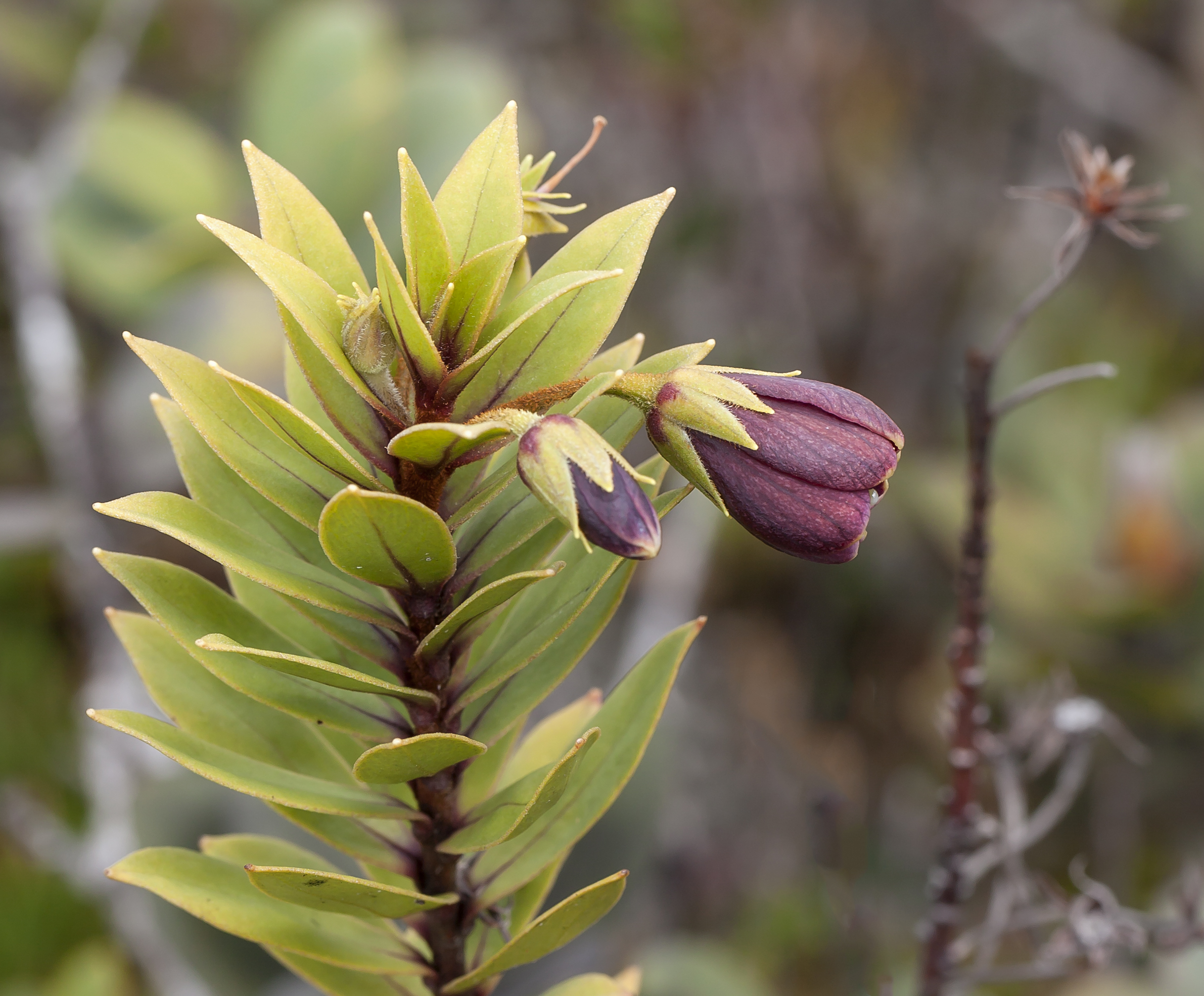 Lysimachia daphnoides This very rare plant with beautiful burgundy flowers is unique to Kauai and is seen here flowering in the wild on a bog island in the Alakai region on Jan. 20th 2016. Image I16-2184.